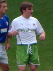 Jay Tabb playing for Reading in 2010.